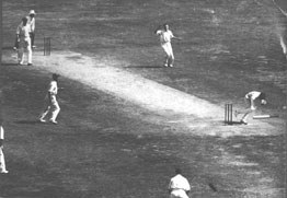 Bert Oldfield is struck on the head by English fast bowler Harold Larwood in the 3rd Bodyline Test cricket match in Adelaide, Australia, 1933. Oldfield sustained a fractured skull and concussion in this incident, which almost led to rioting by the Australian crowd.